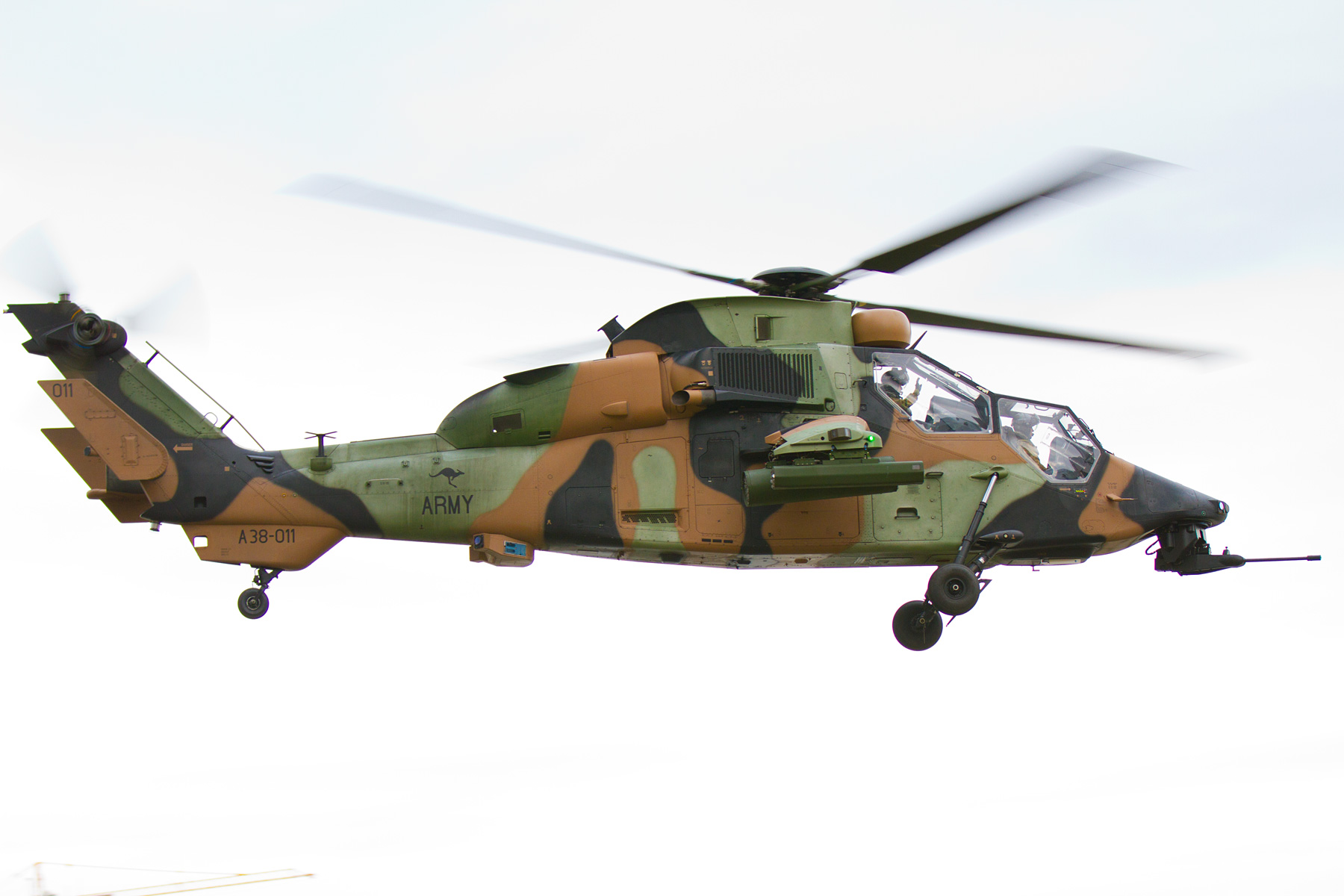 Australian Army Tiger ARH helicopter flying over Brisbane River as part of the 2012 Riverfire display.